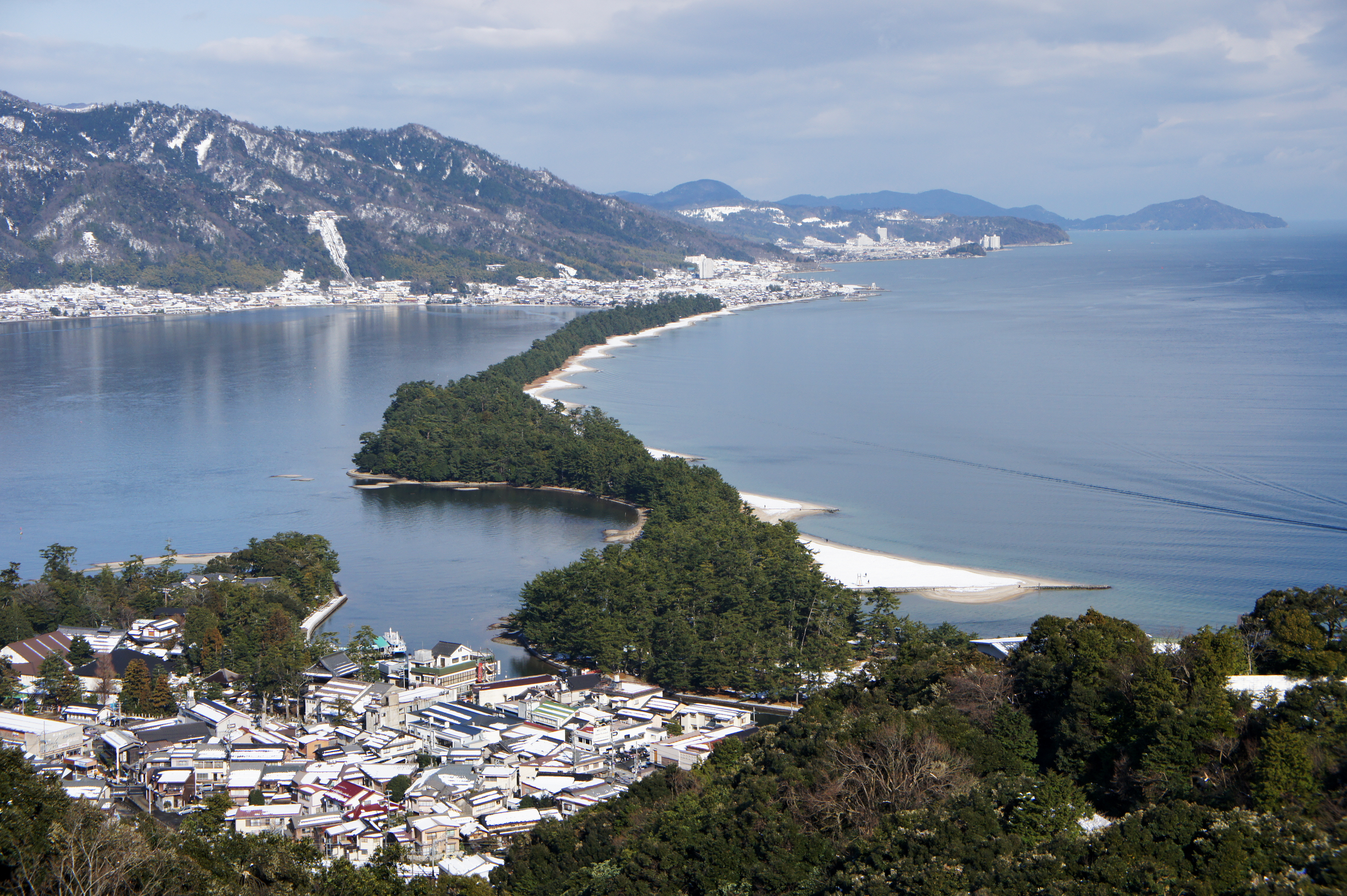 Amanohashidate is one of the Japan's Three Scenic Views in Miyazu, Kyoto prefecture, Japan. This photograph is a view from the Amanohashidate View Land on Mt. Monju.